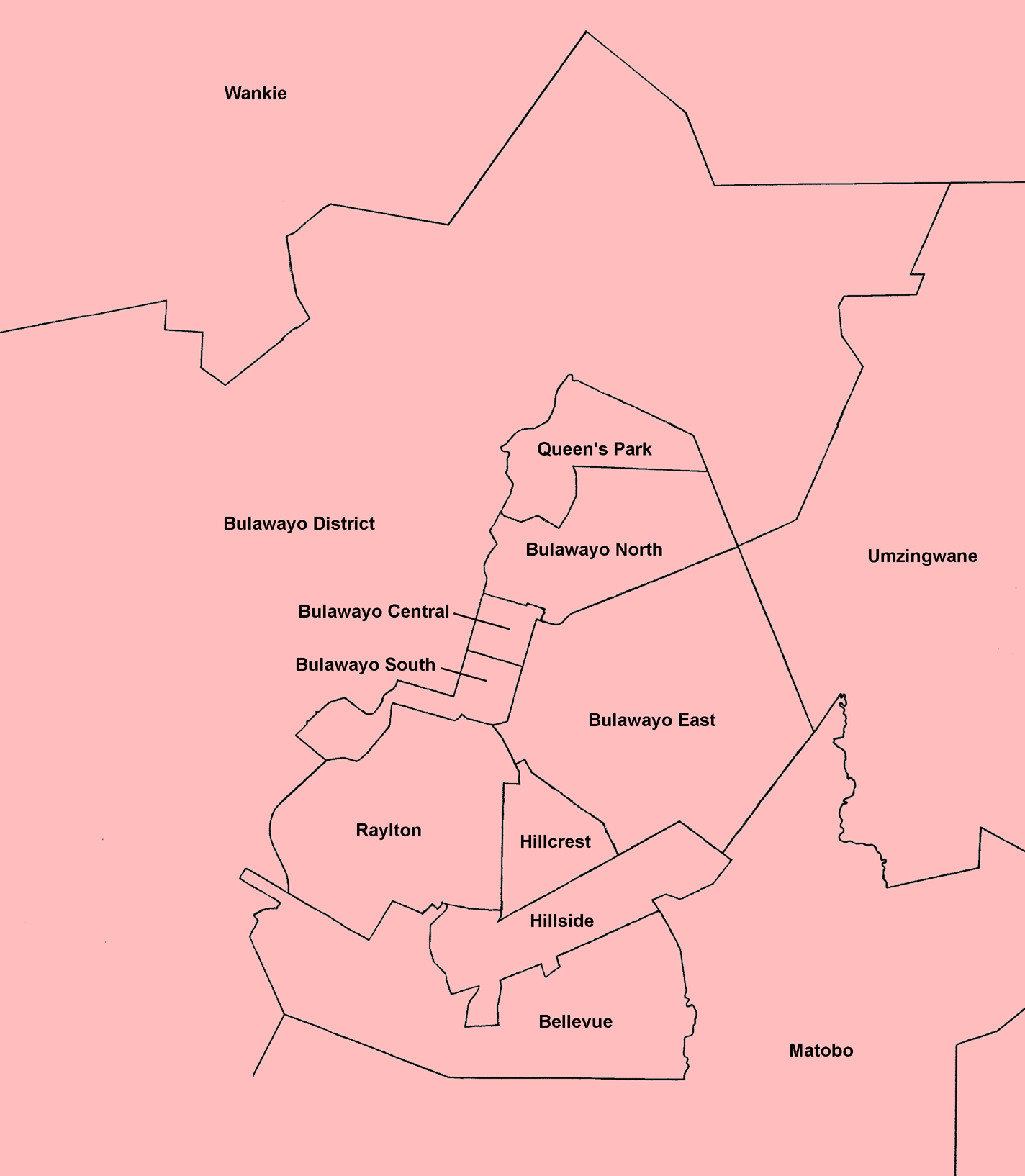 European roll constituencies in Bulawayo, Rhodesia after the 1970 Delimitation; used in the 1970, 1974, and 1977 general elections.